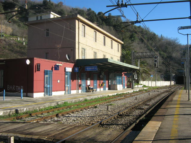 Railway station of Sicignano degli Alburni